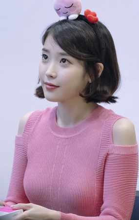 IU at a signing event at COEX on April 27, 2017.